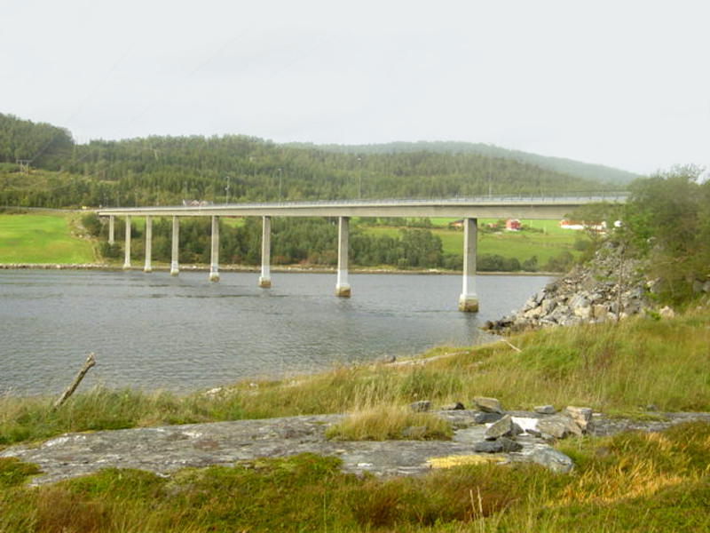 The bridge Torsetsundbrua in Norway